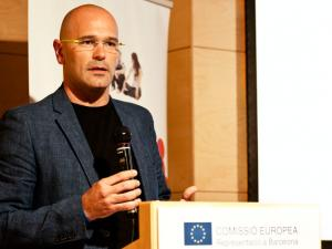 Raul Romeva in a speech